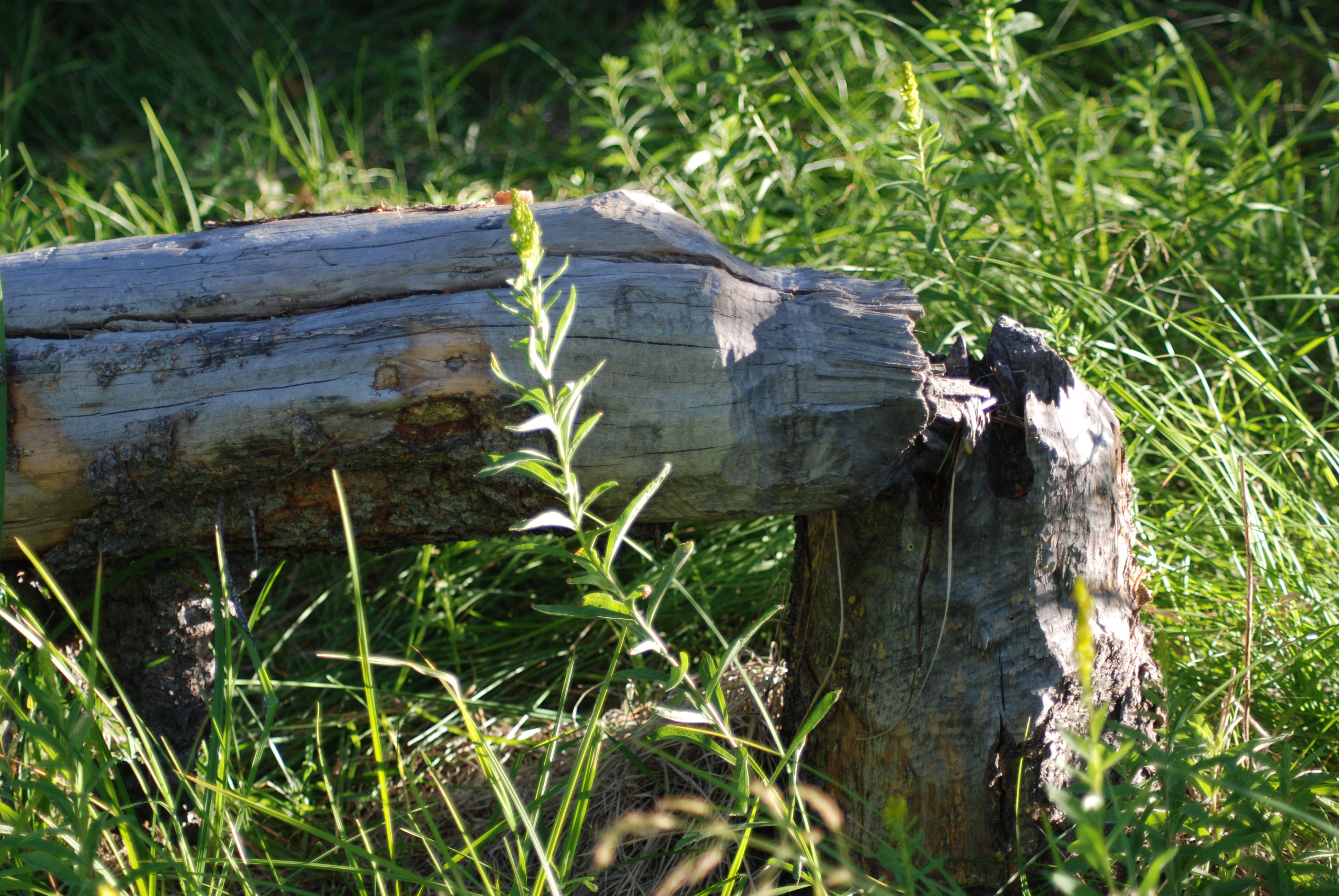 Conifer felled by beaver on Meeks Creek, Tahoe just west of Highway 89